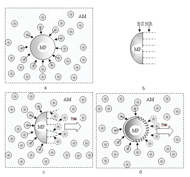 Molecular power 47. The action of fast air molecules on a spherical microparticle with anisotropic surface properties and the occurrence of its sailing directional motion in the air environment